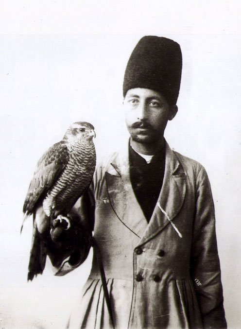 A falconer with a hawk, probably Goshawk. One of Antoin Sevruguin's historical Iran photographs.